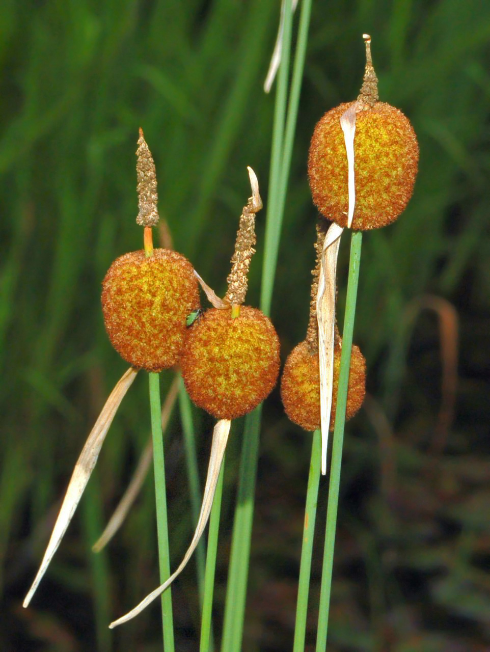 Typha minima - Pratorondanino, Genova, Italy